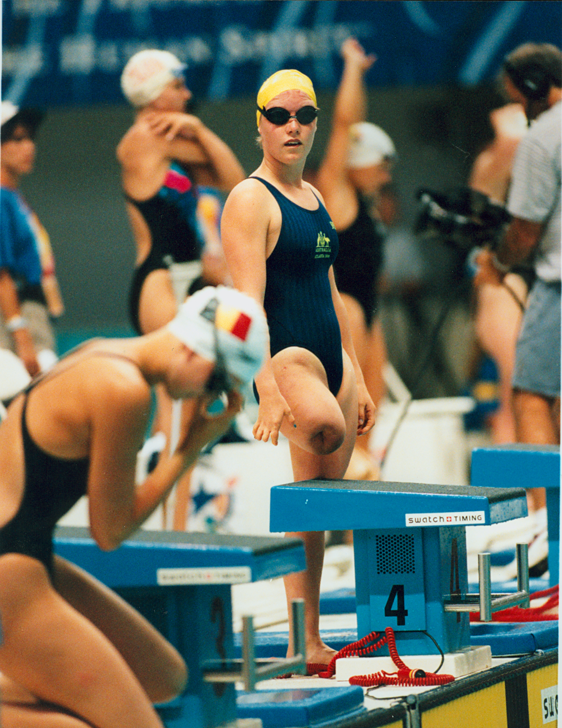 Paralympic swimmers at the 1996 Summer Paralympics.